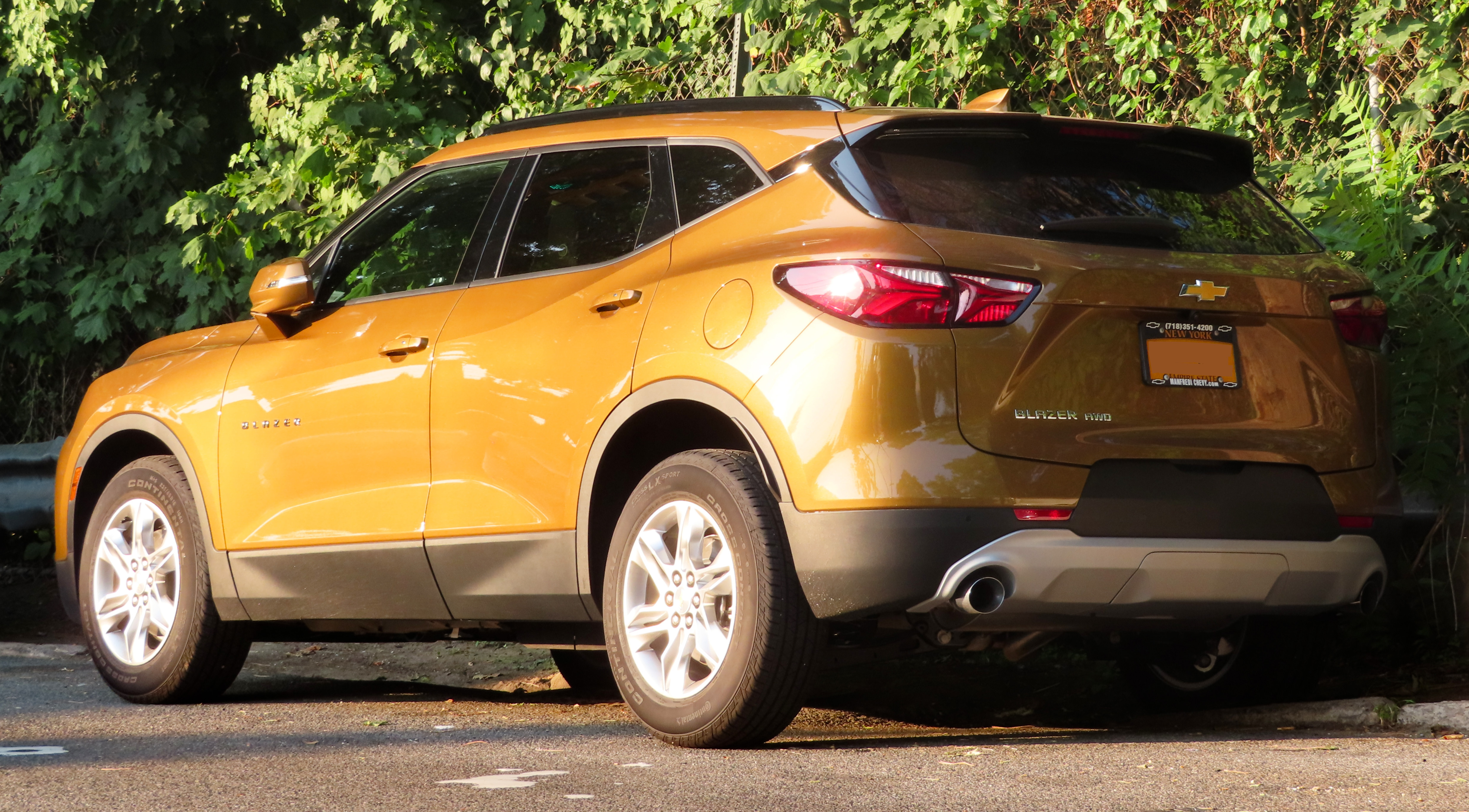 A 2019 Chevrolet Blazer 2LT AWD photographed in Flushing, Queens, New York, USA